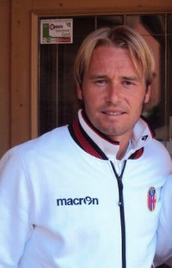 gillet